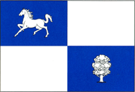 Nisporeni rajon flag